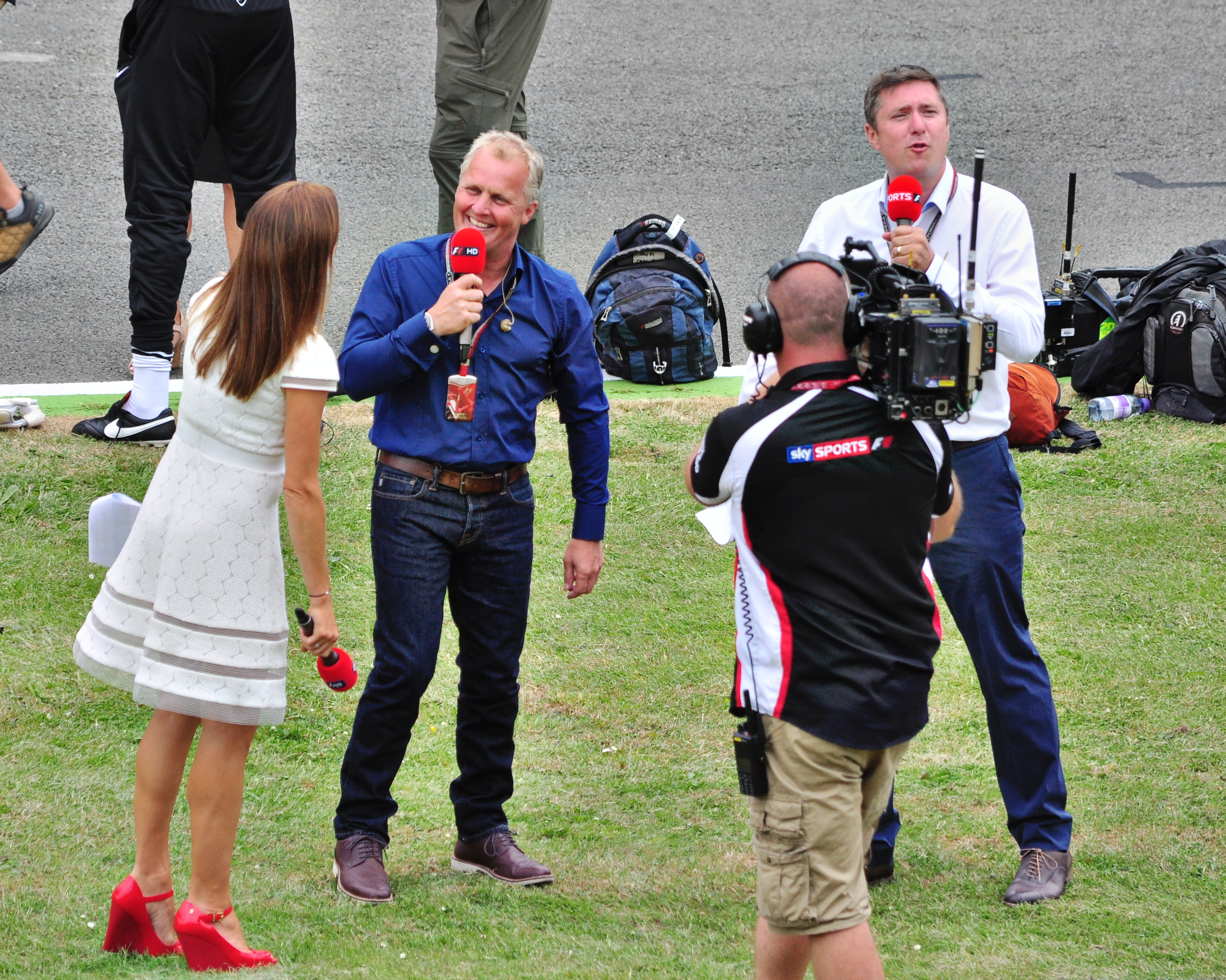 Johnny Herbert (left) and David Croft of Sky Sports at the 2014 British Grand Prix at Silverstone Circuit.